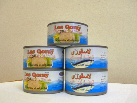 Cans of Las Qoray brand tuna fish made in Lhas Korey, Somalia.